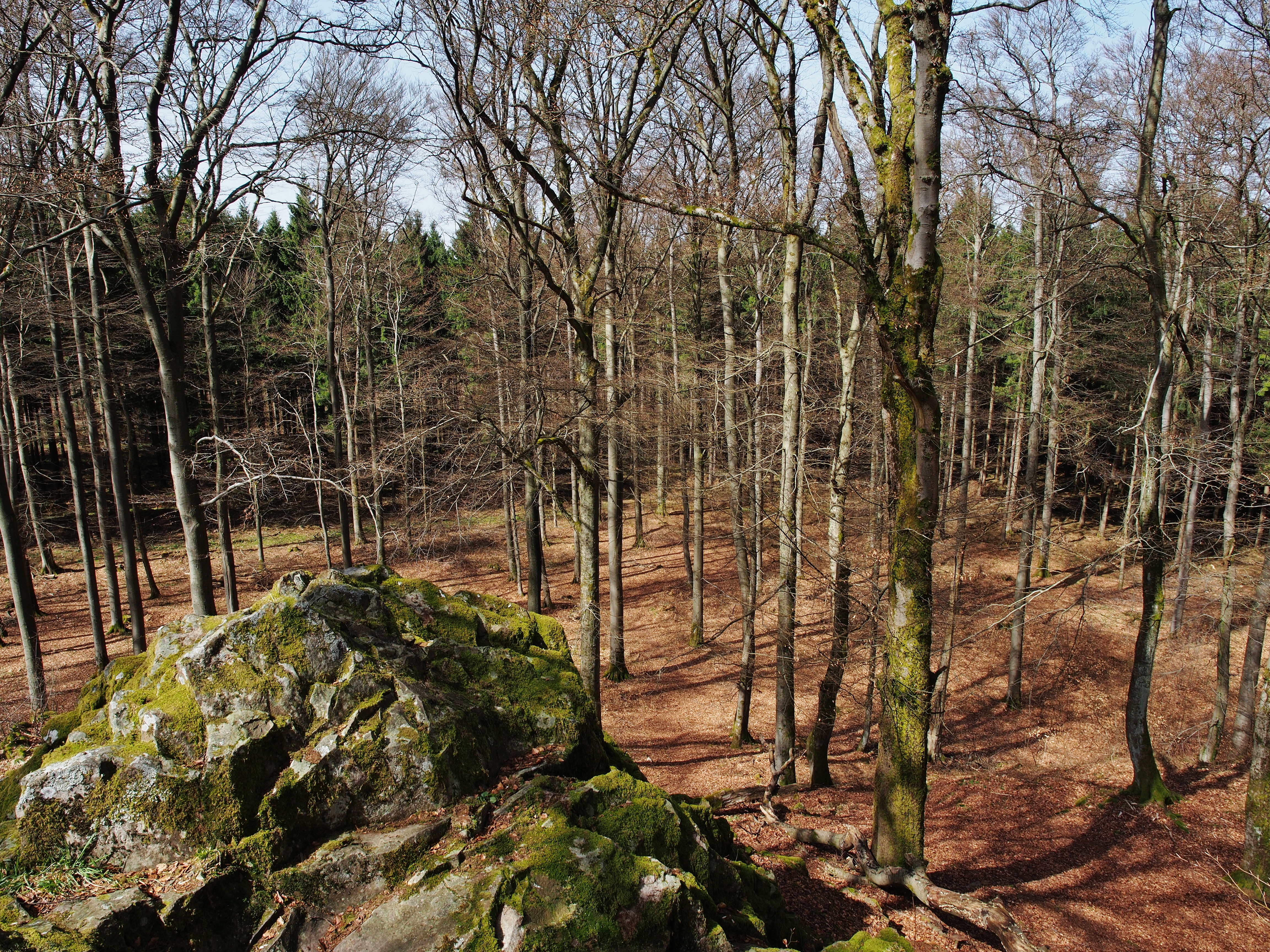 On top of Seitenstein rocks, looking to the north-west